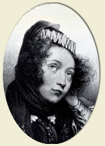 Portrait of Marie Dorval, (1798-1849)